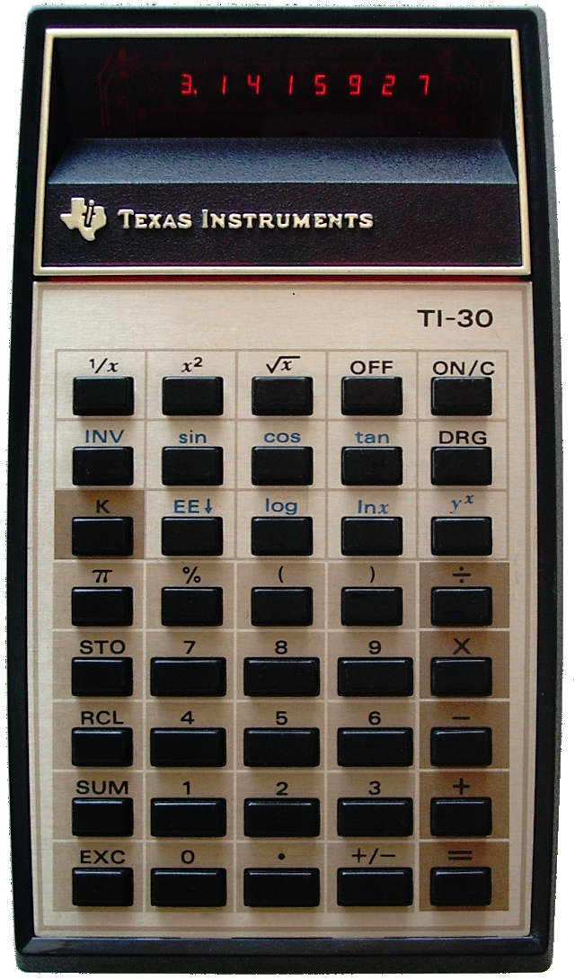 TI-30 calculator. First version with red LED display.